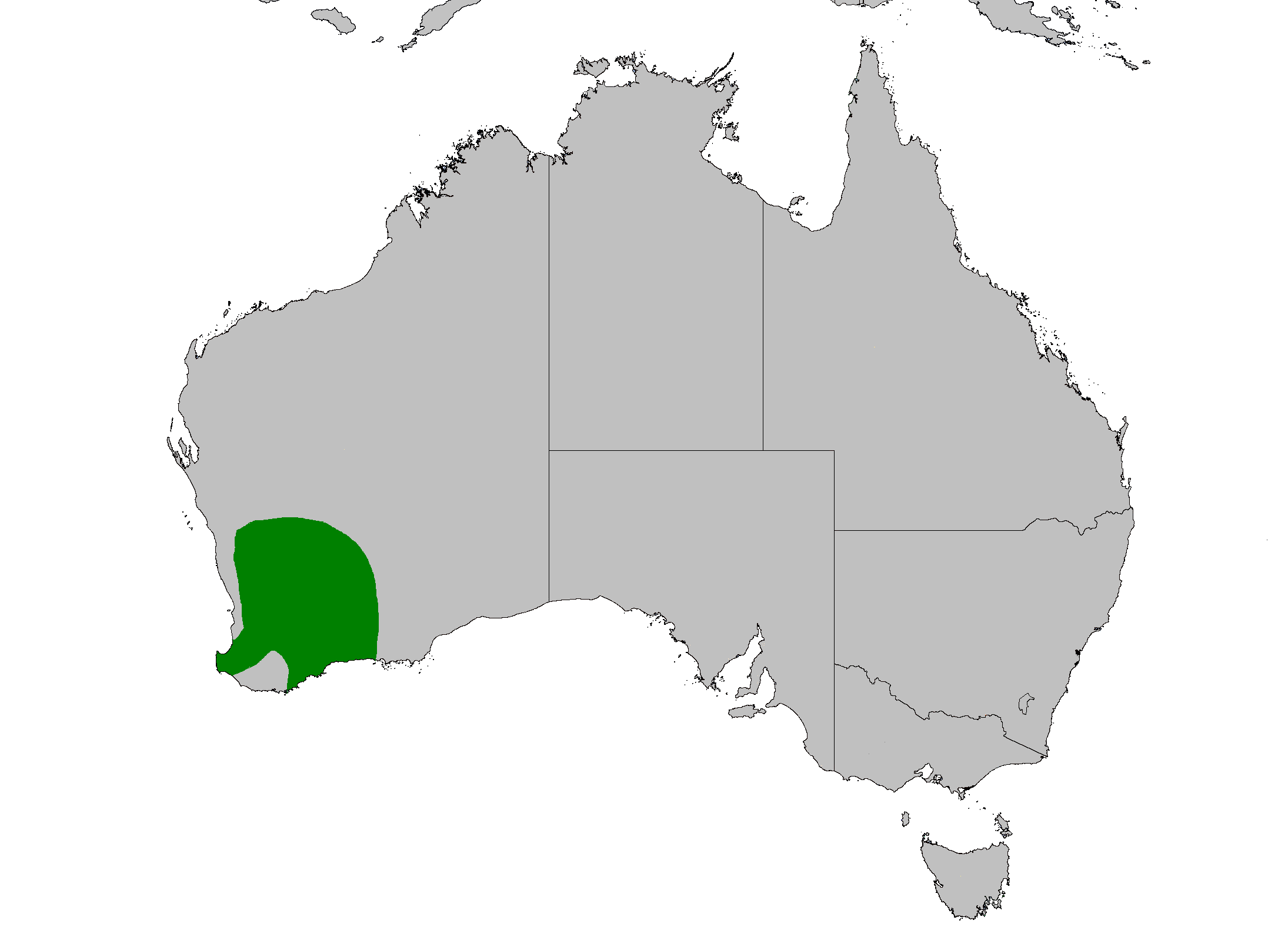 range map of western quoll (Dasyurus geoffroii)